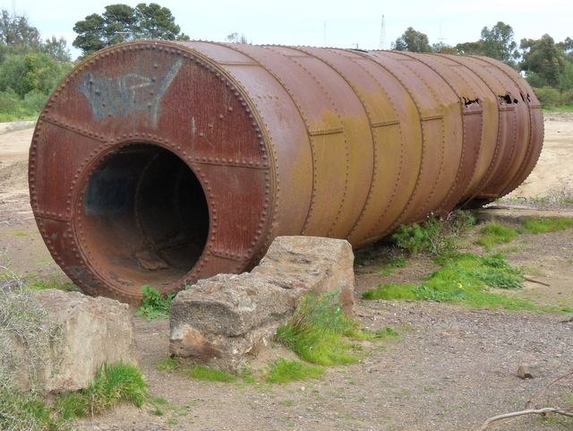 A rusty old boiler at the Hughes Enginehouse, Moonta Mines